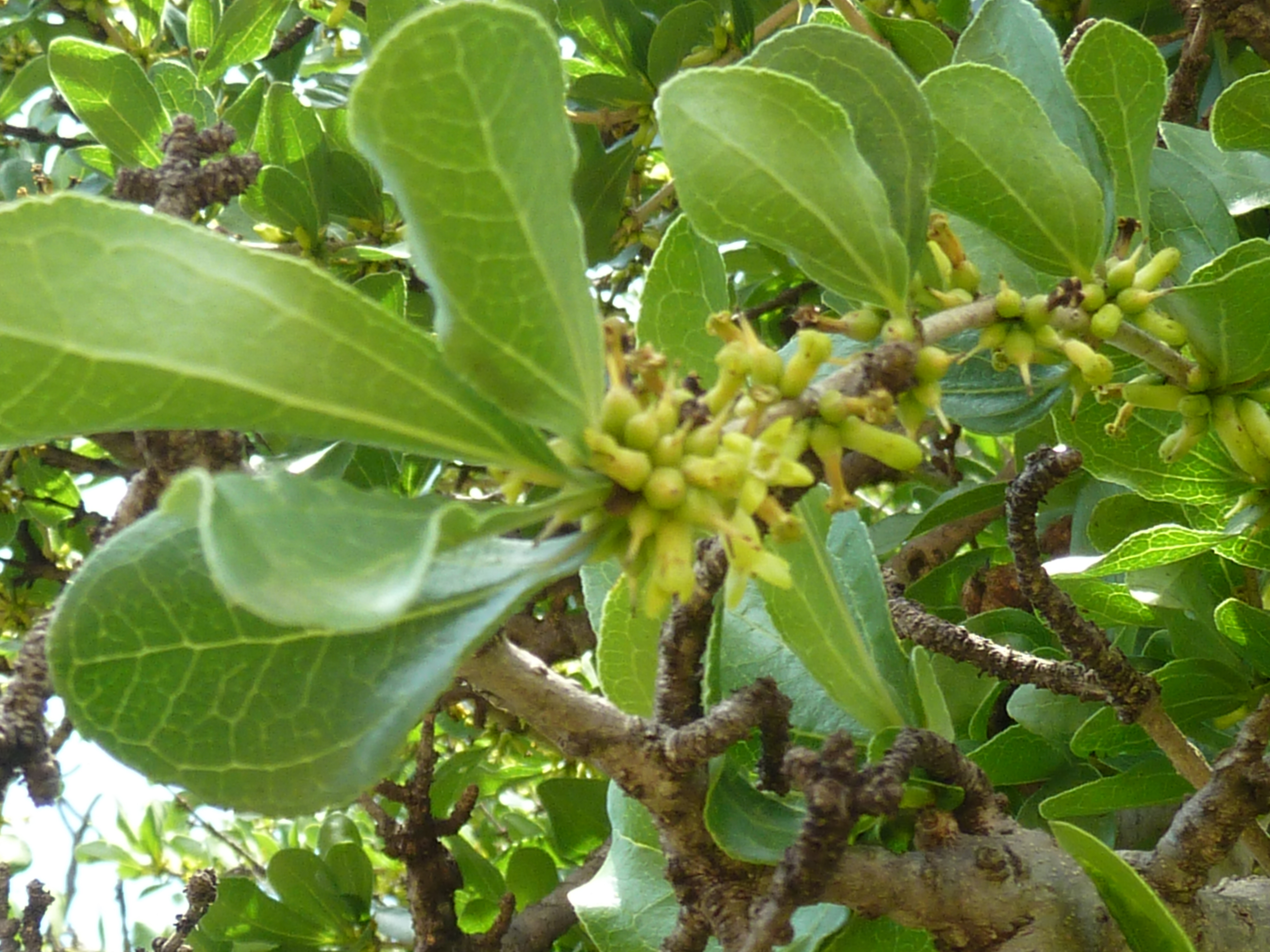 Flowers and young fruit of a Black monkey orange at Seringveld near Pretoria, South Africa